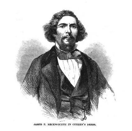 Beckwourth: James P. Beckwourth in citizen's dress